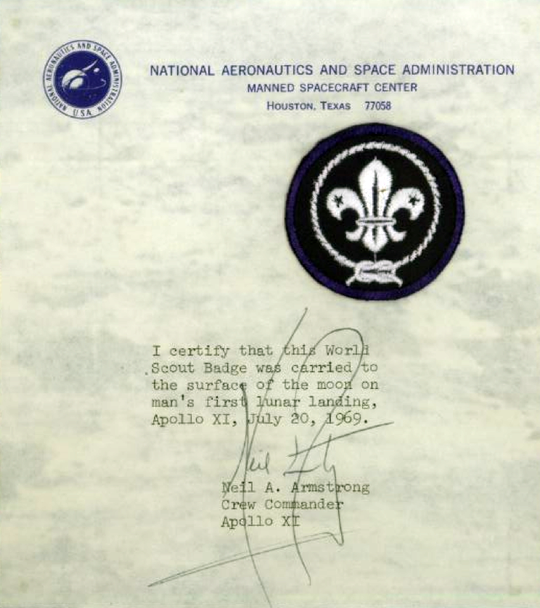 Photocopy/scan of Neil Armstrong certification of World Scout Badge carried to the surface of the Moon.